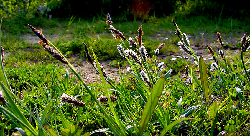 Carex sp., Location: “Colonne d’Helfaut”, on “Plateau d’Helfaut”, (north of France, near St omer, near the current Nature Reserve Landes of Helfaut (one of the old "voluntary" nature reserves, "since become regional nature reserves") in the Region Nord/Pas-de-Calais and one of four of these reserves established in compensatory measuring against the ecological fragmentation effect of the new big road cutting the plateau Helfaut (Natura 2000, Arrêté prefectoral de Biotope).